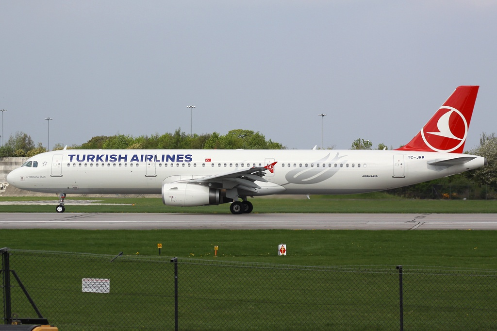 Turkish Airlines Airbus A321 (TC-JRM)